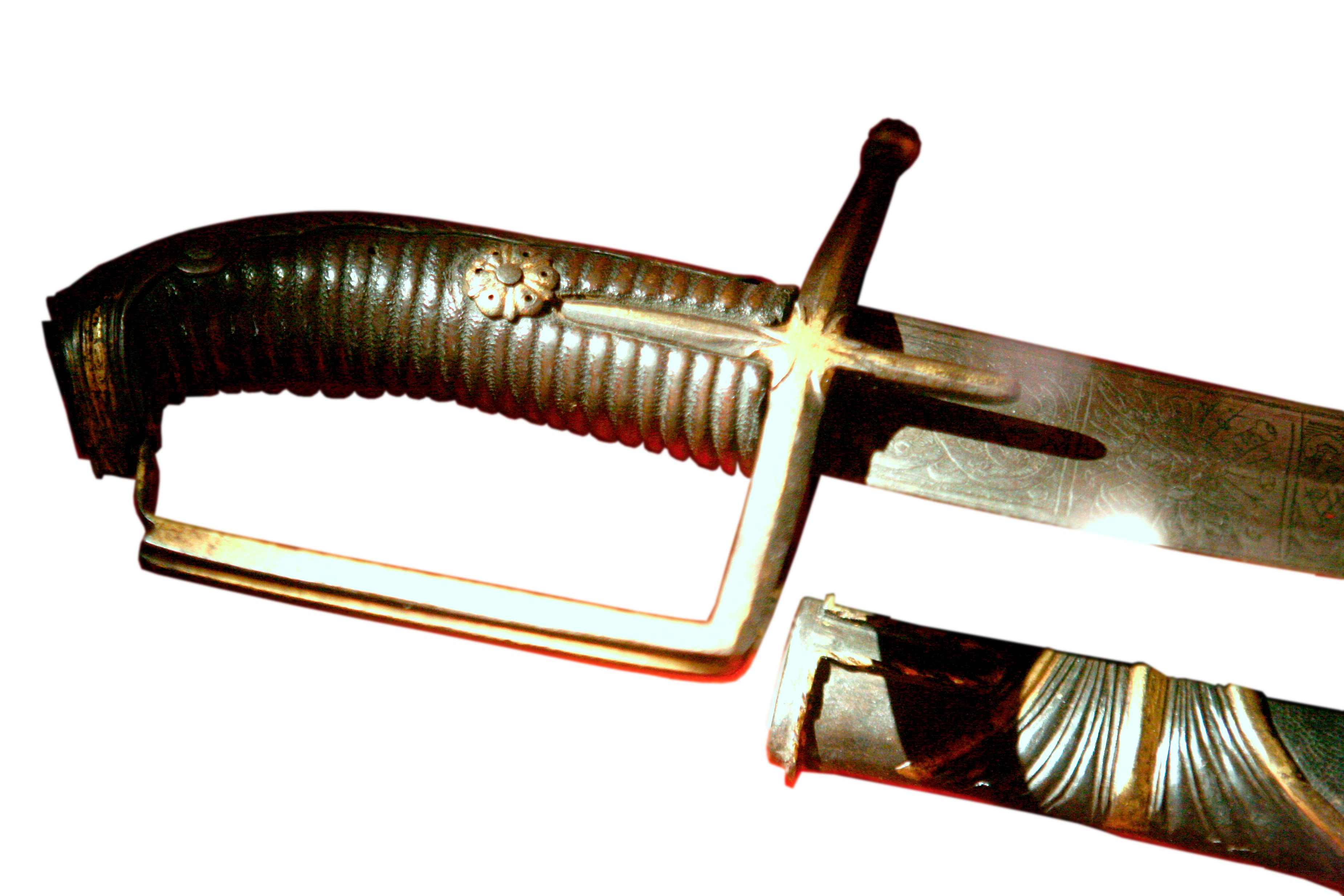 Light cavalry officer sabre on Hungarian mounting, gift from general Jean Baptiste Kléber to Guérin, circa 1800. Steel, copper alloy, iron, wood, leather. On display at Strasbourg Historical museum, accession number PN 12.